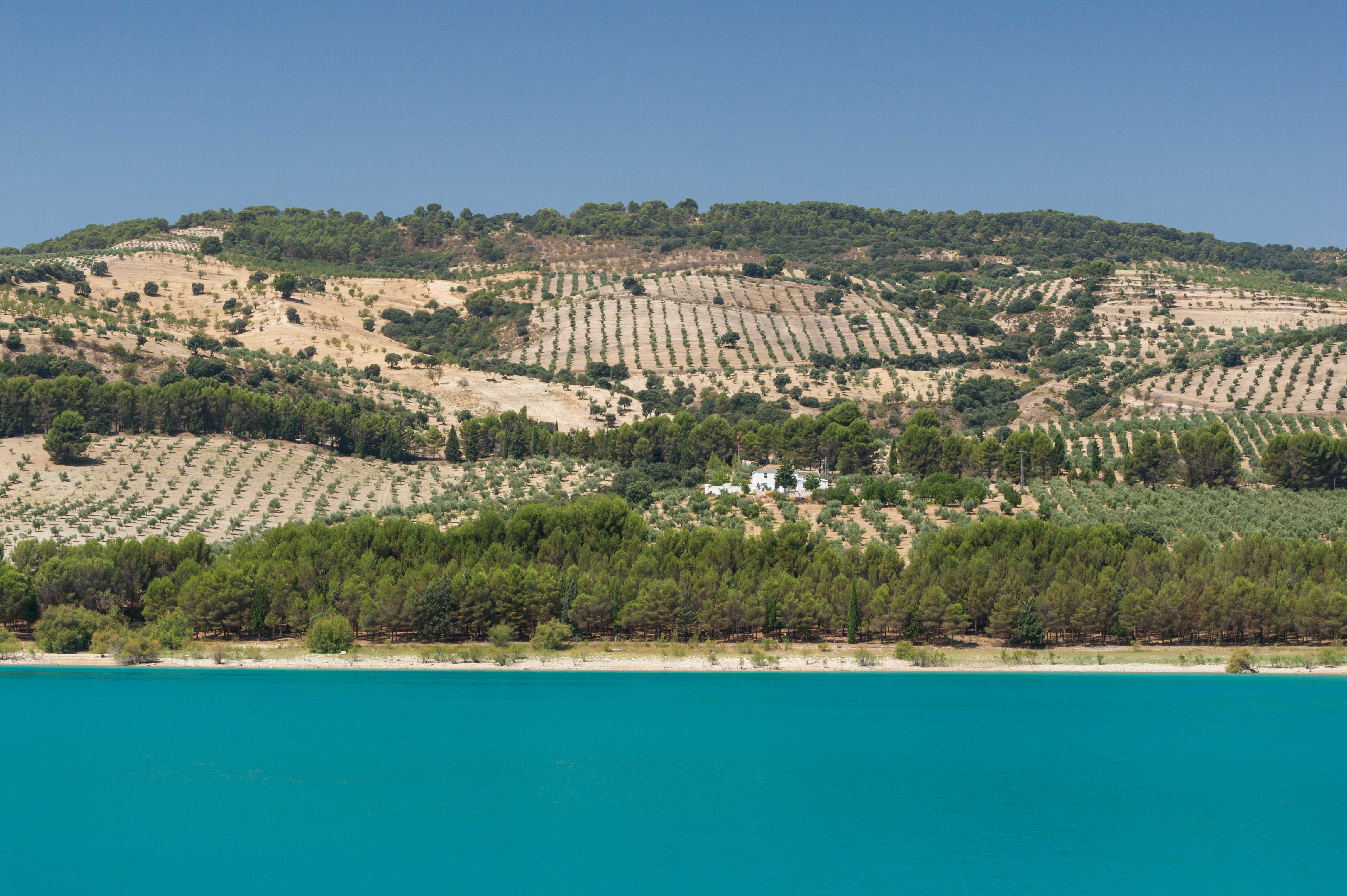 Olive groves and almond groves near Arenas del Rey, behind the lake of los Bermejales, Andalusia, Spain.